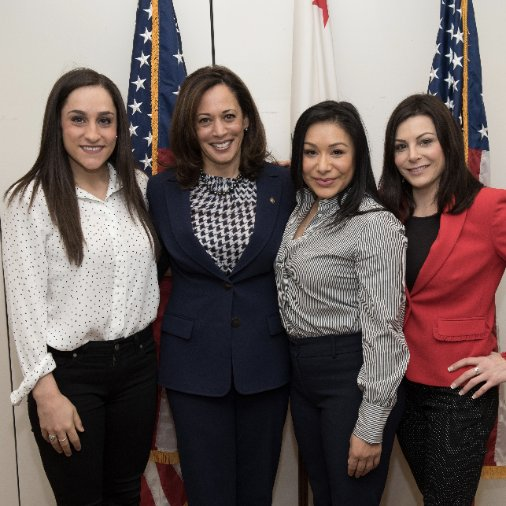 I met with a group of strong, courageous women today. Thank you to @Jordyn_Wieber, Jamie Dantzscher, and Jeanette Antolin for coming by my office.